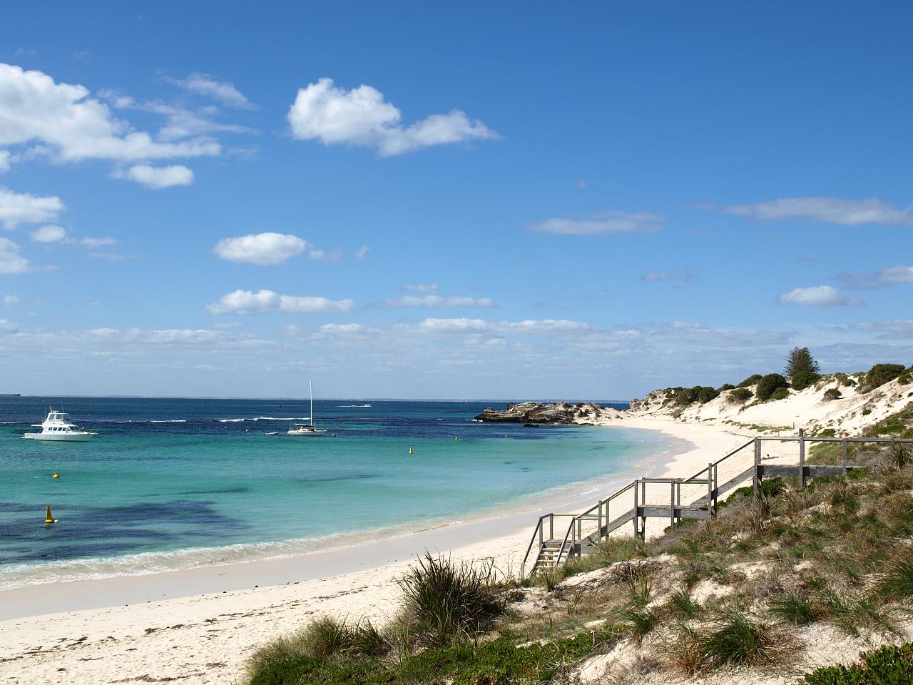 Rottnest Beach, Perth